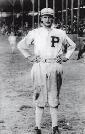 Vean Gregg with the Portland Beavers in 1910.